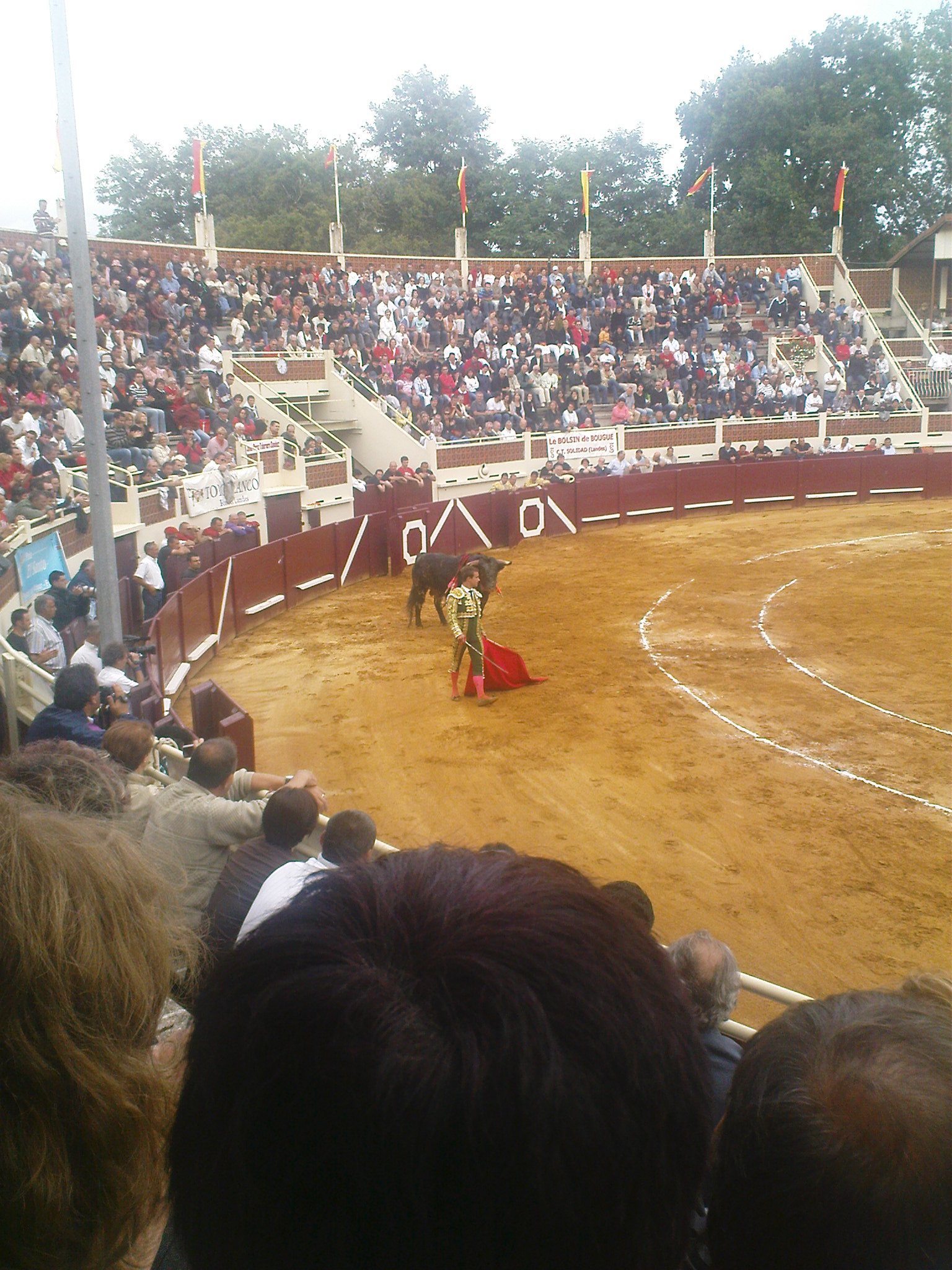 Bull fight at Eauze